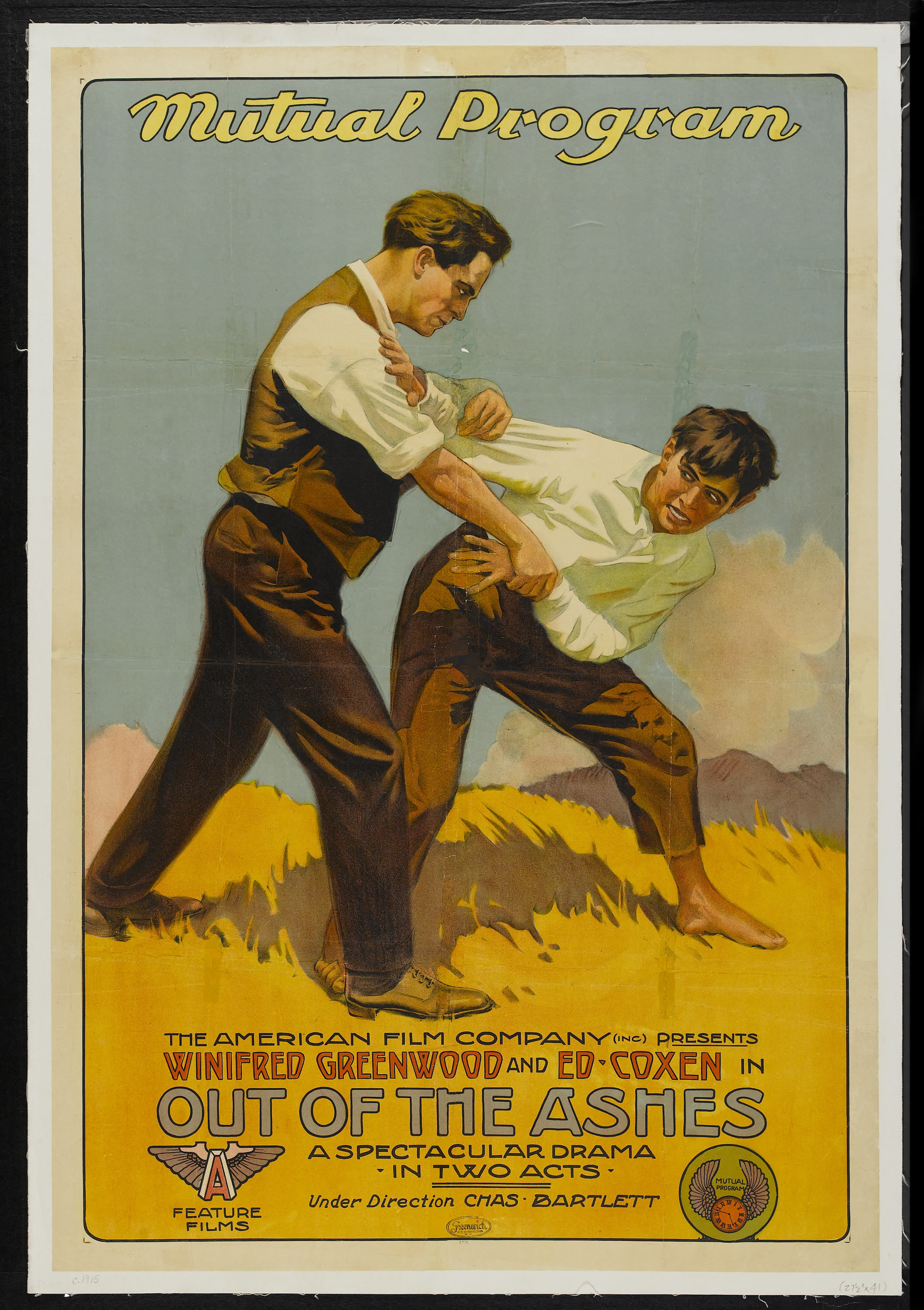 Film poster.